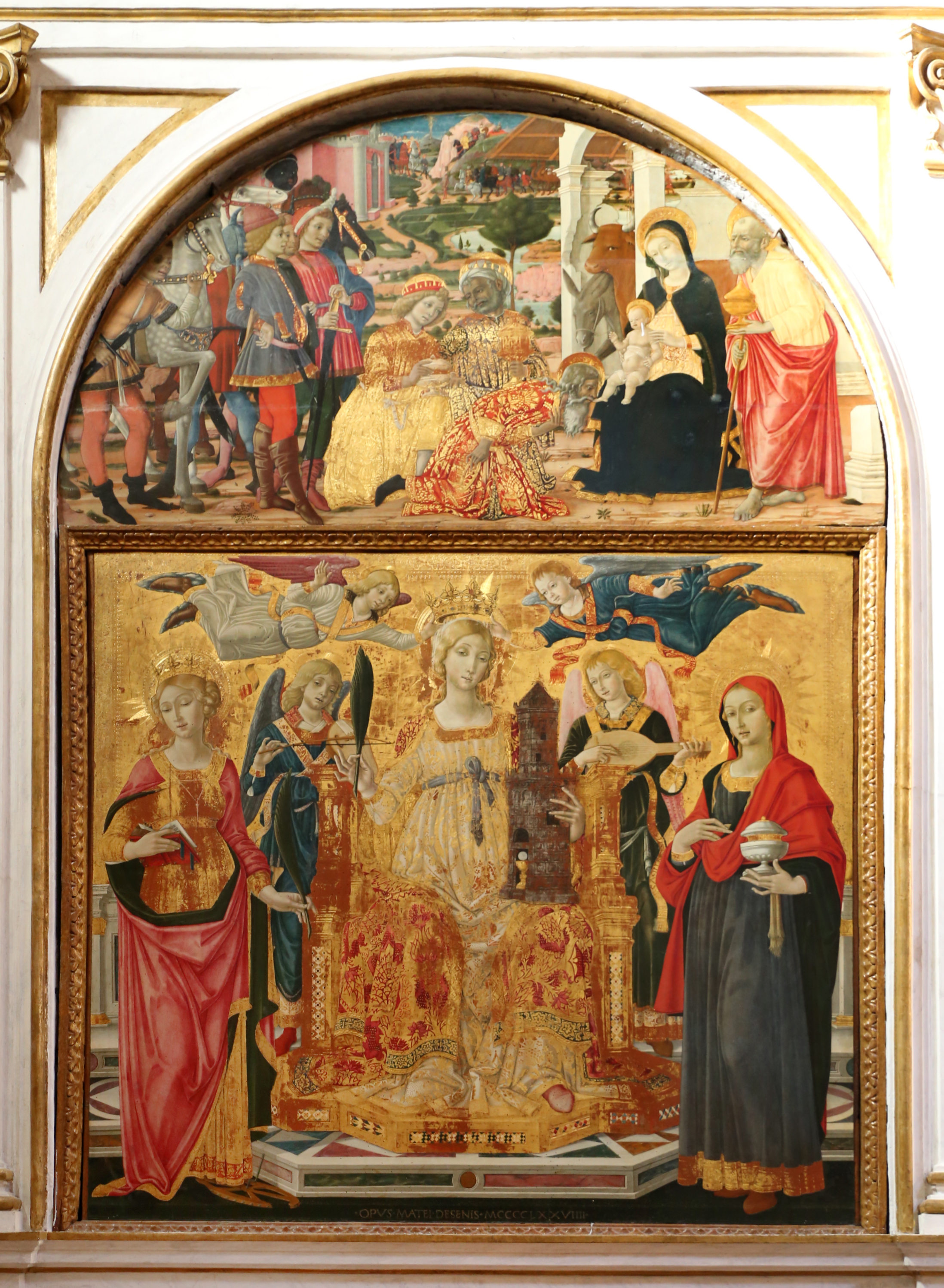 Interior of the Basilica of San Domenico (Siena)